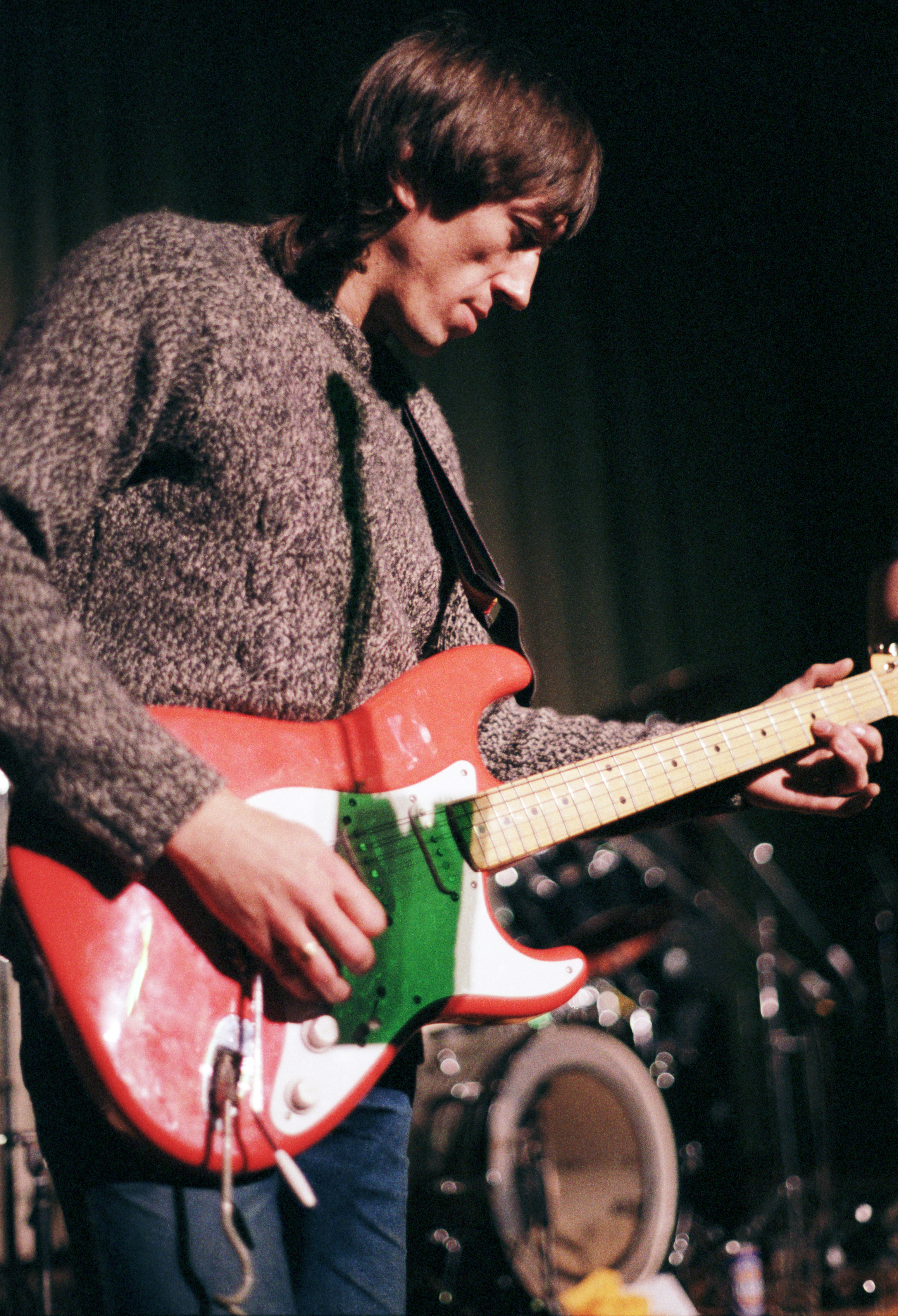 Welsh musician Tich Gwilym (Robert Gilliam) performing in Aberystwyth, November 1985